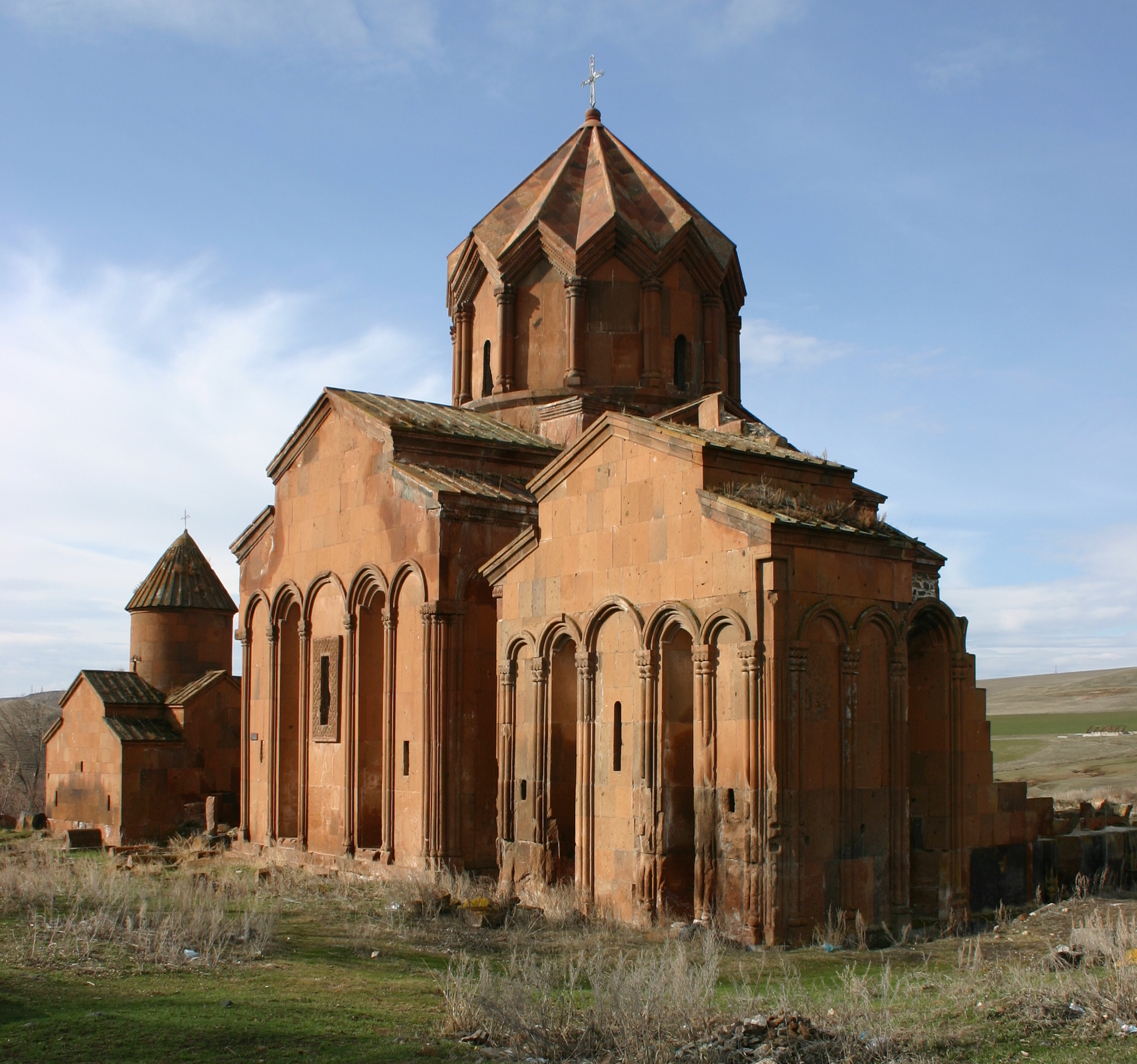 The 10th century Armenian monastery of Marmashen in Armenia. 108/10